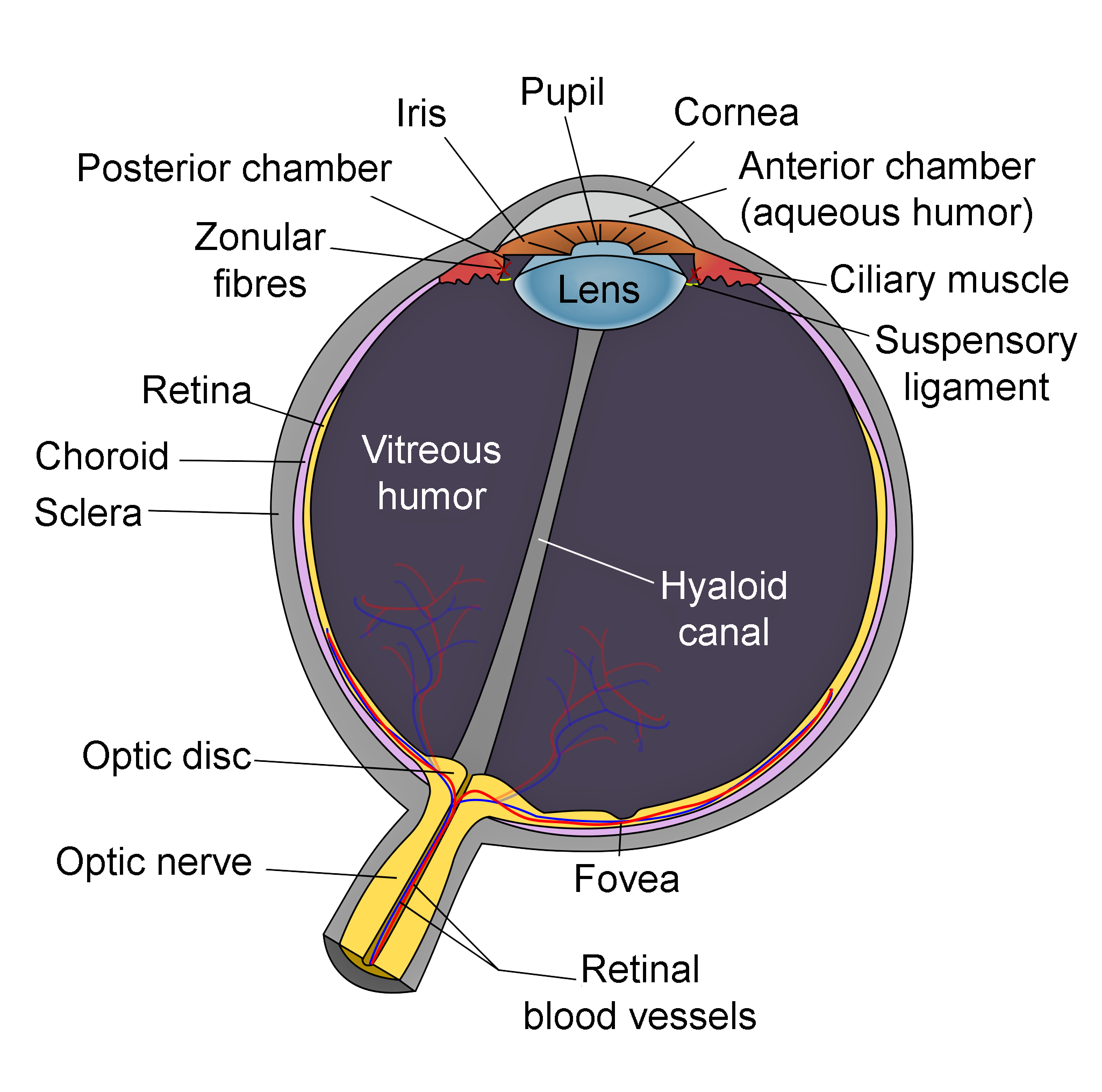 Derived from File:Schematic diagram of the human eye en.svg